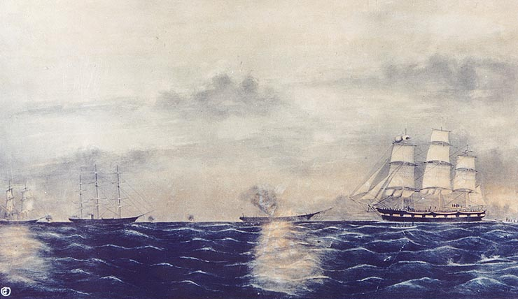 "Destruction of Whale Ships off Cape Thaddeus Arctic Ocean June 23 1865 by the Conft Stmr Shenandoah" Colored lithograph of an artwork by B. Russell, depicting CSS Shenandoah's assault on the U.S. whale ships in the Bering Sea area. Individual items shown are (from left to right): brig Susan Abigail (burning); ship Euphrates (burning--distant); CSS Shenandoah; ship Jerah Swift (burning--distant); ship William Thompson (burning--distant); ship Sophia Thornton (burning); whaleboat going to warn other whalers (very distant); ship Milo which carried the destroyed vessels' crews to San Francisco; ice in the distance. Collection of President Franklin D. Roosevelt. U.S. Naval Historical Center Photograph. Original caption: “Photo # NH 50454-KN "Destruction of Whale Ships ... by Conf. Stmr Shenandoah"”